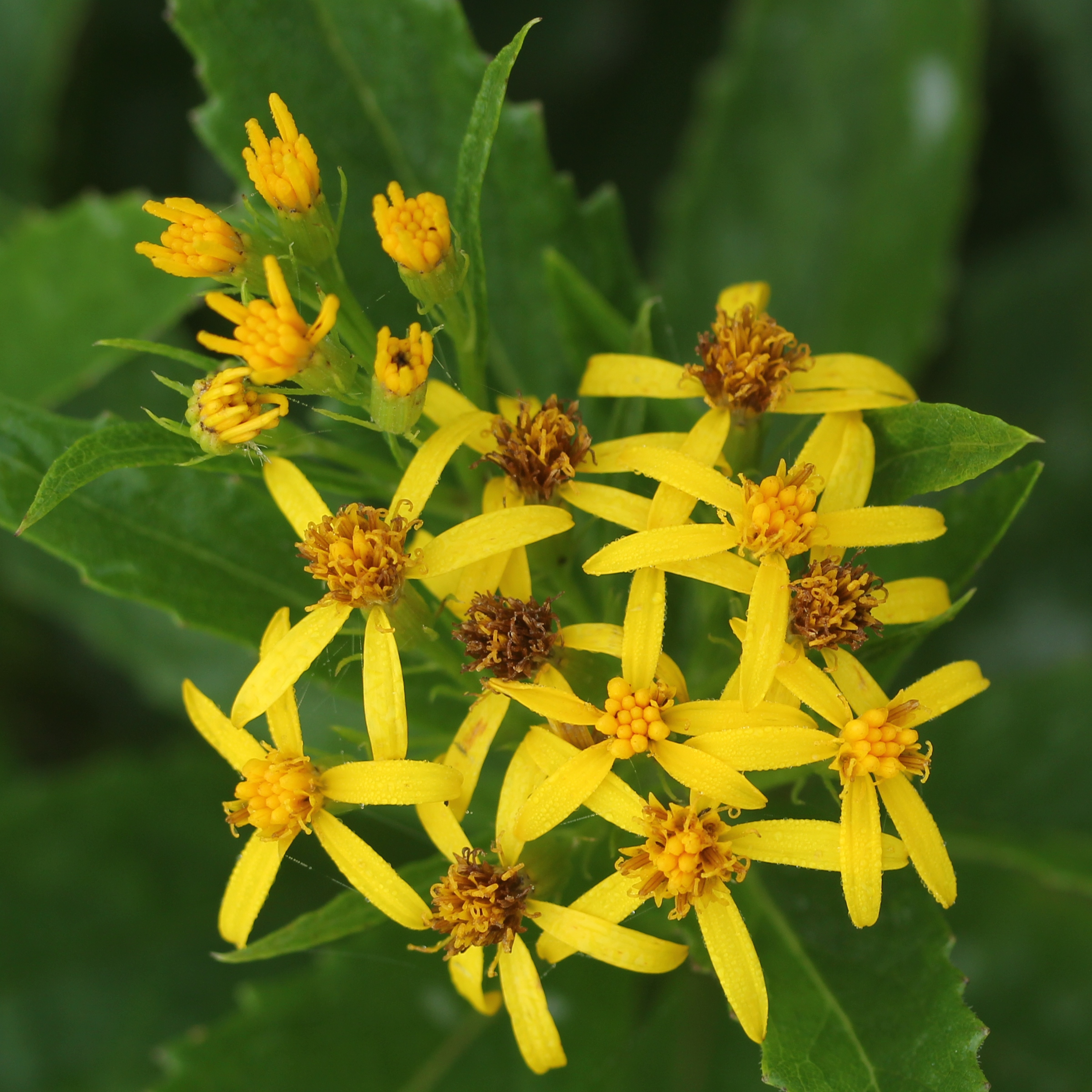 Flowers of Senecio nemorensis, in Mount Ibuki, Maibara, Shiga prefecture, Japan.